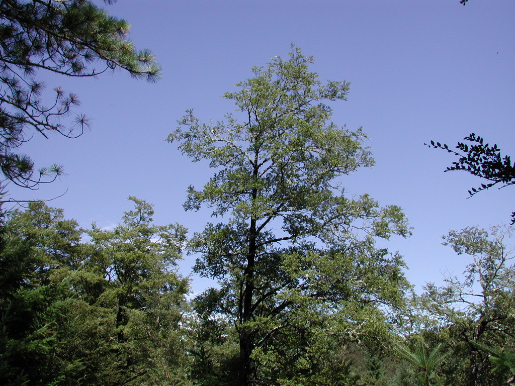 Silver beech tree near Hanmer Springs.